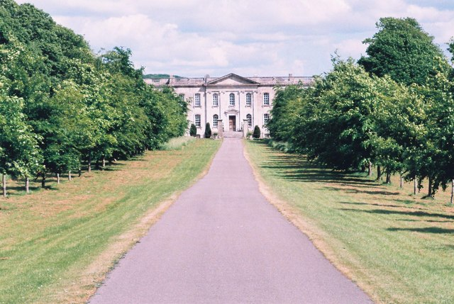 Kingston Russell: mansion with long driveway Kingston Russell House, near Long Bredy. It is one of the few parishes in Dorset that does not have its own parish church.